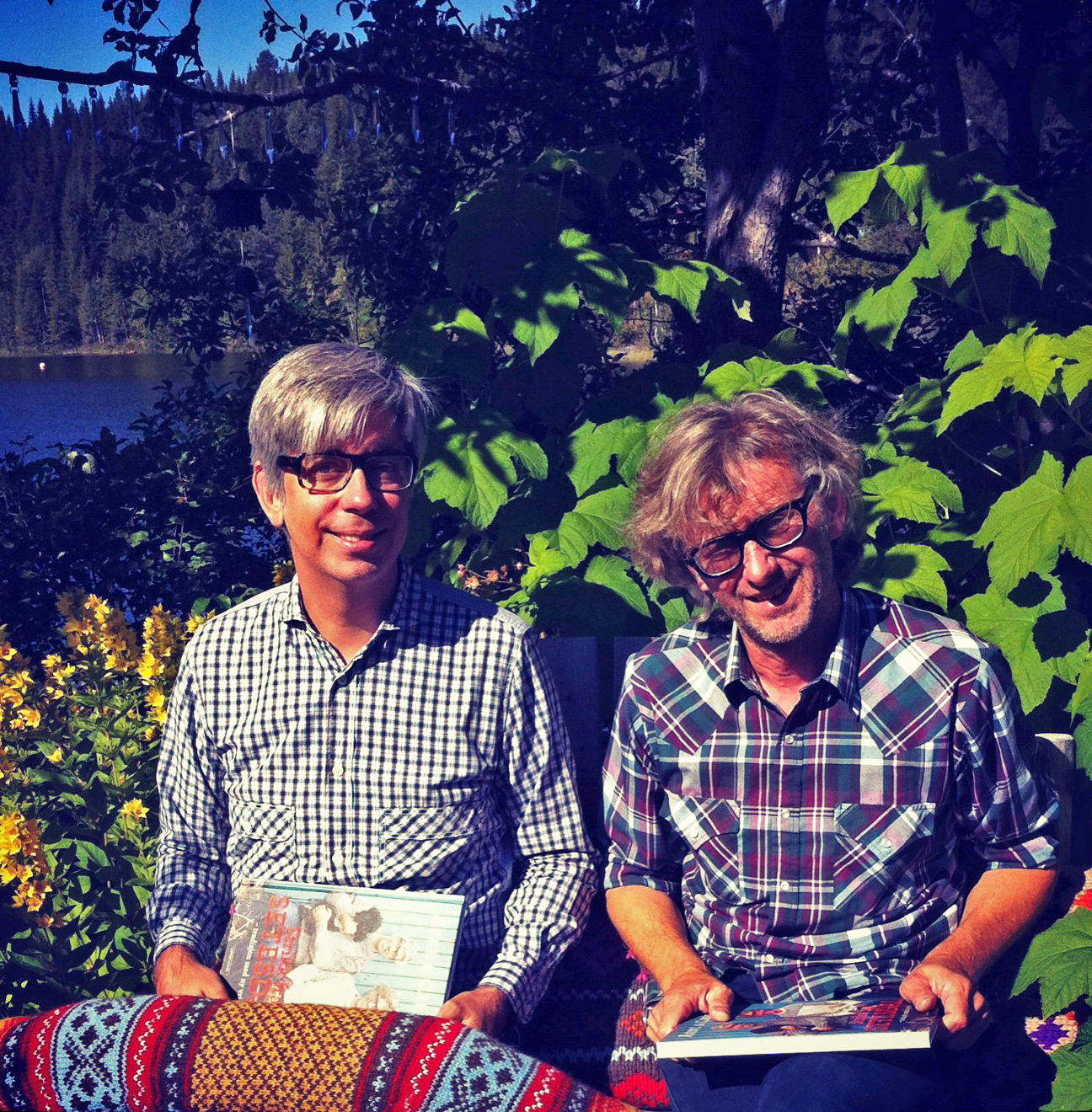 the founders of - and people behind - the Swedish/Norwegian knit design company «Arne & Carlos»: Arne Nerjordet (right) and Carlos Zachrison